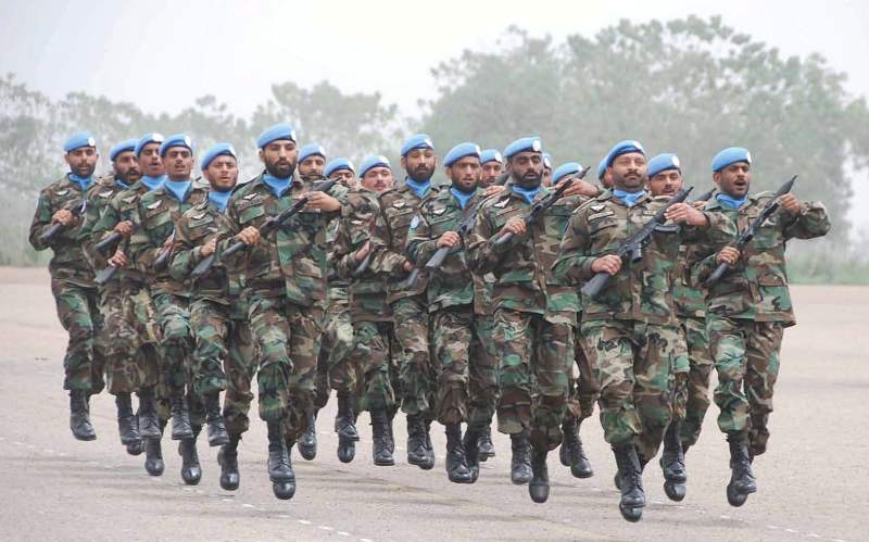 Pakistan – The Most Significant and Consistent Contributor for UN Peacekeeping Force